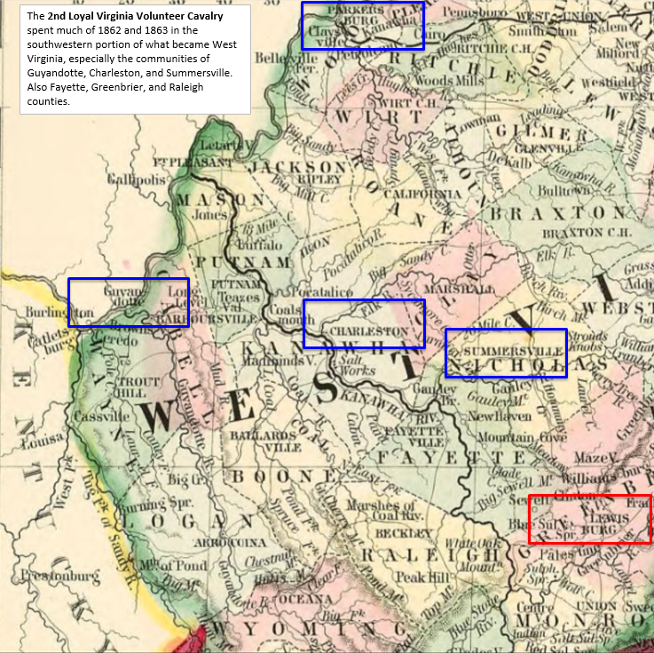 The map shows the southwestern portion of the U.S. state of West Virginia during 1863. Points of interest during the American Civil War for the 2nd West Virginia Volunteer Cavalry have been marked.